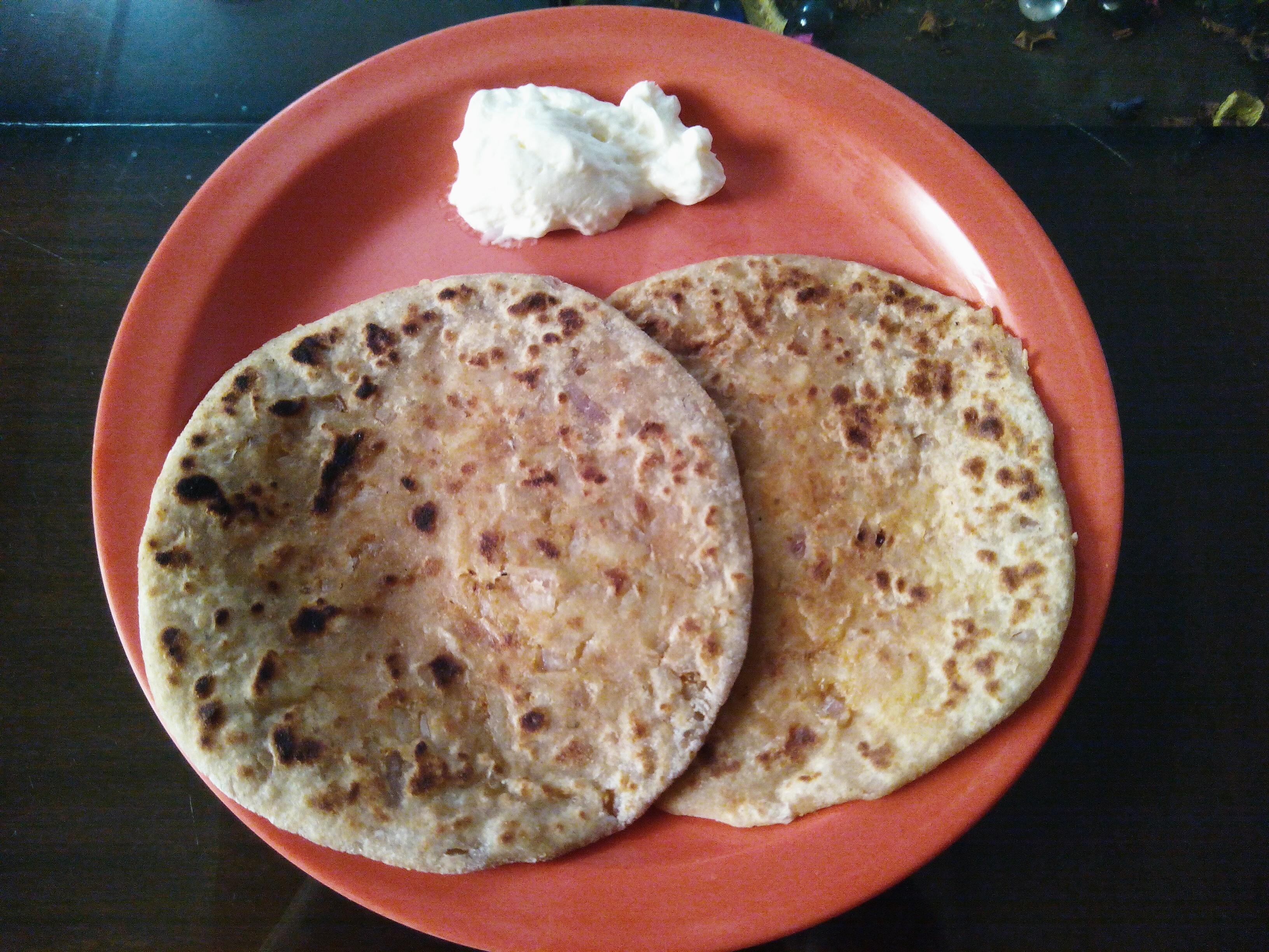 Aloo Parathas with Butter from India